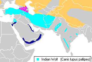 Indian wolf (Canis lupus pallipes) distribution modified using KolourPaint